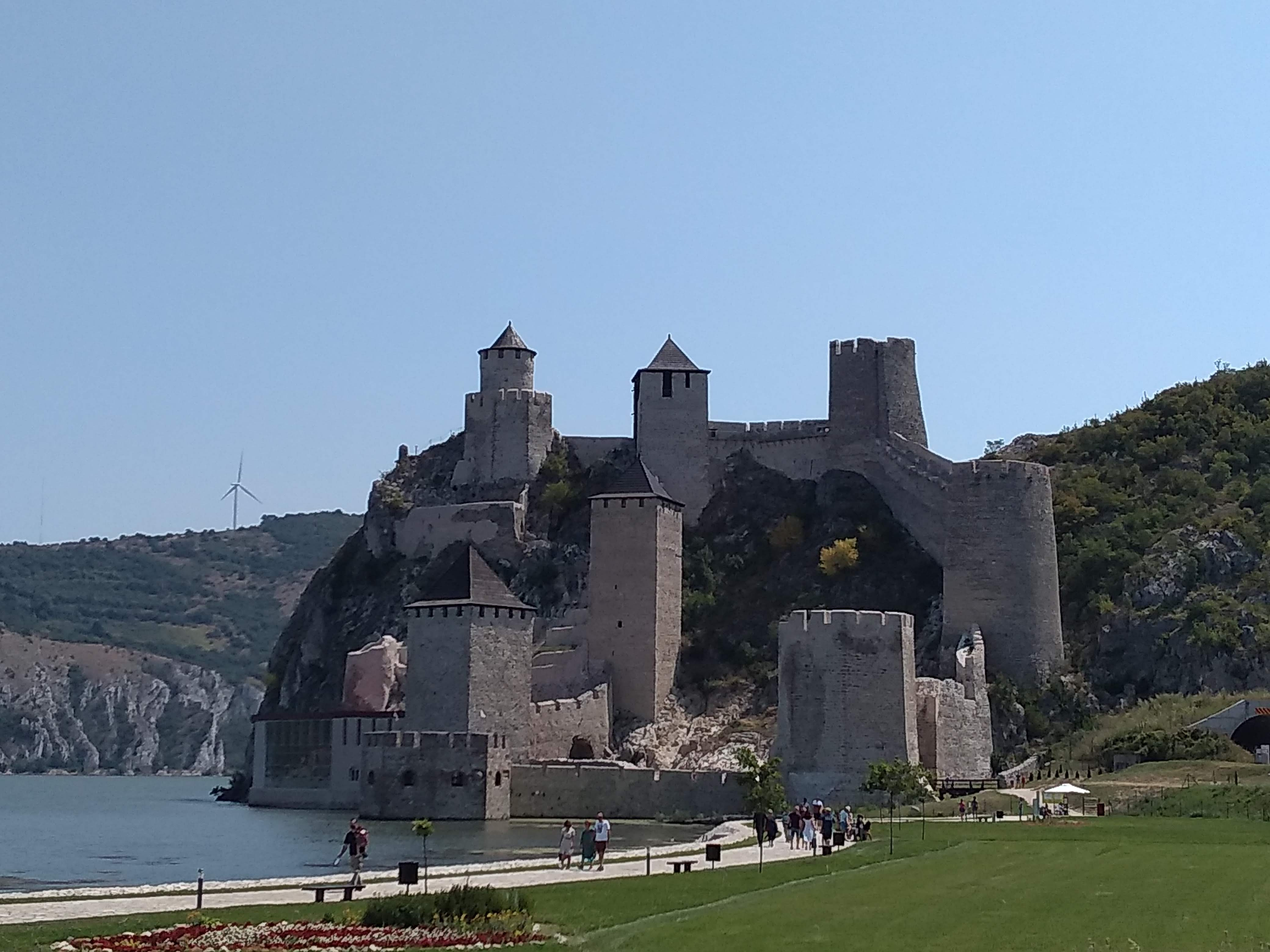 Golubac Fortress after renovation, completed in March 2019